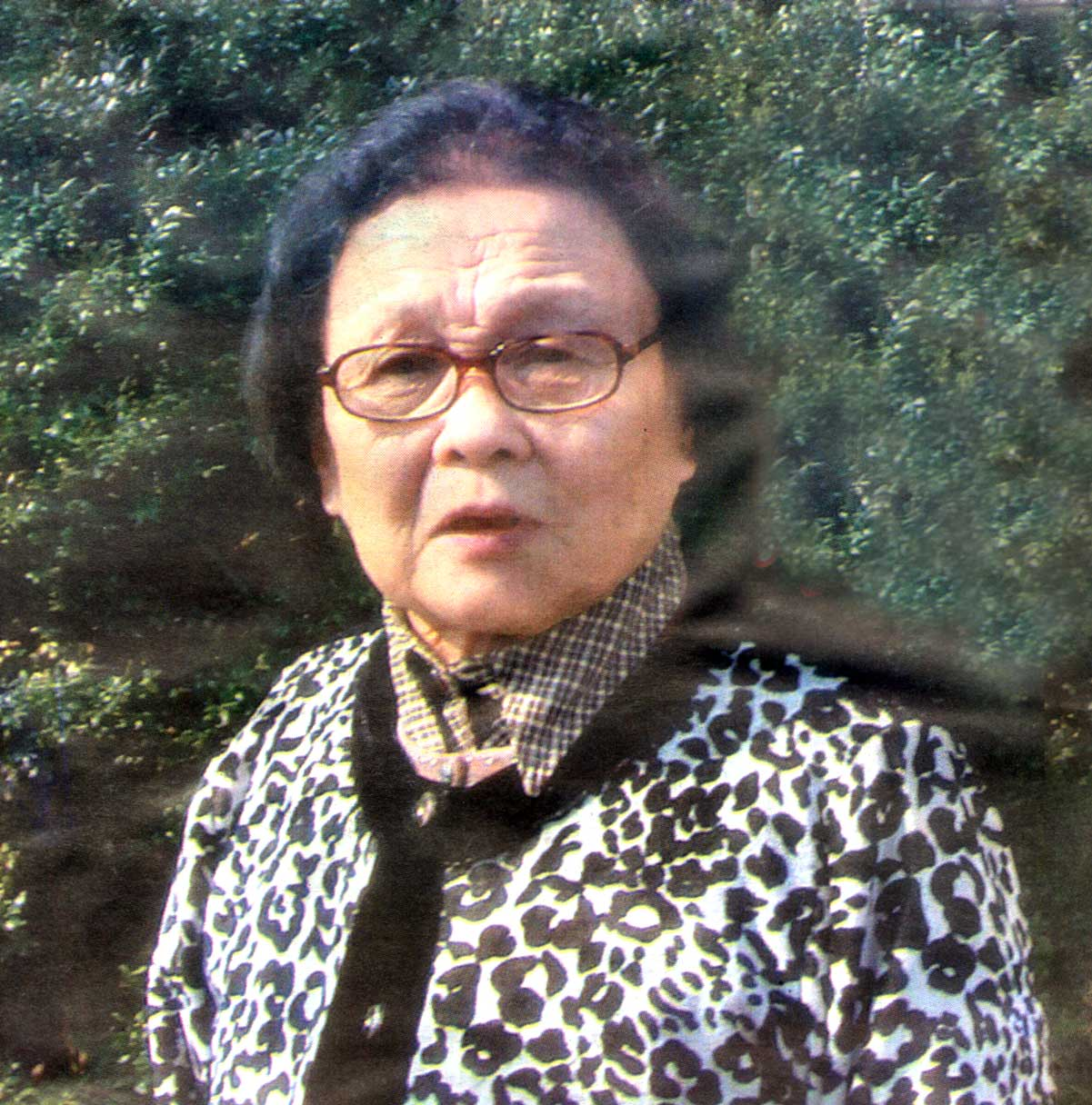 Dr. Gao Yao-Jie (Hie) (or Gao Yaojie) 80-year-old, gynecologist from Henan province